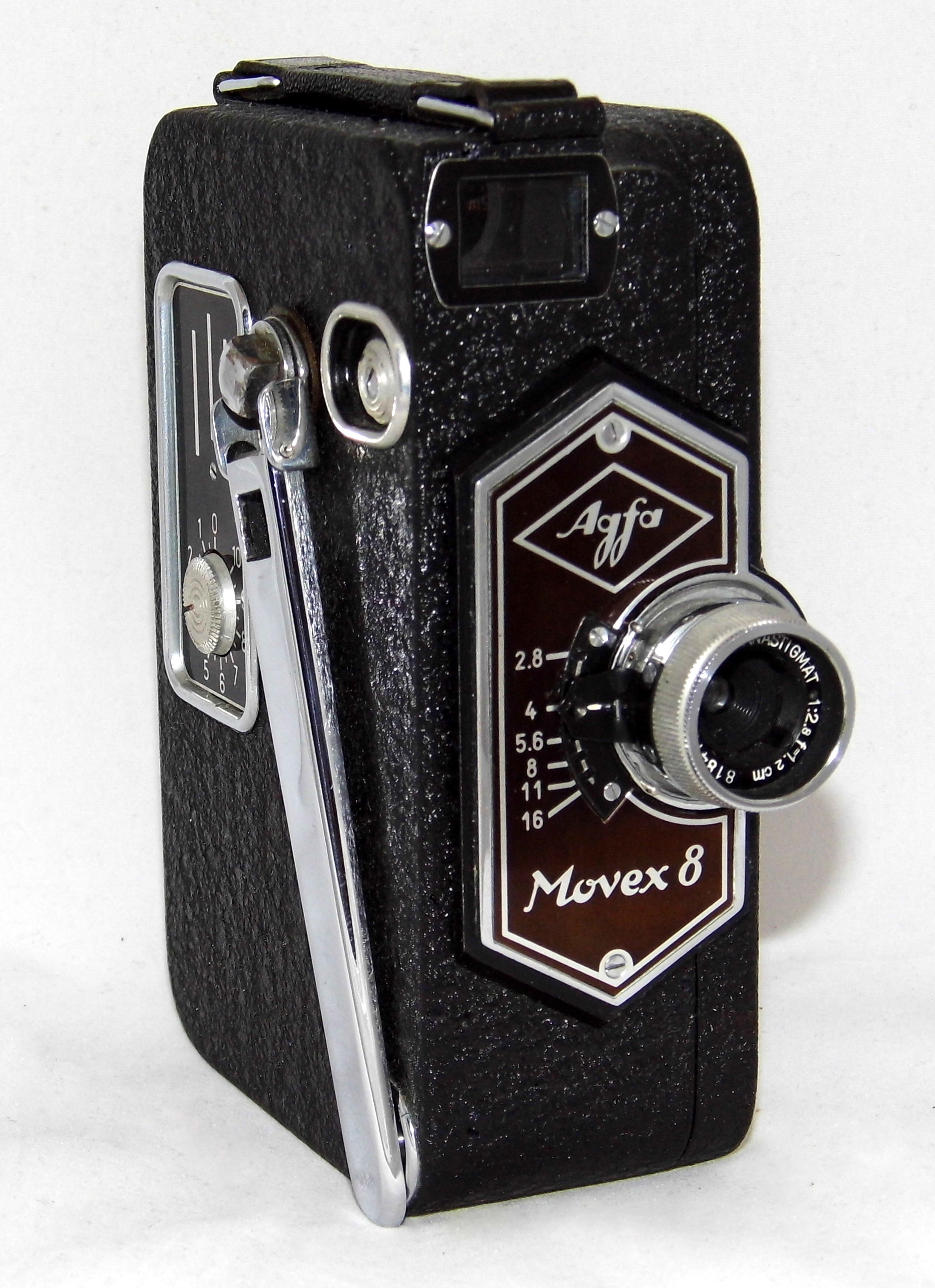 Vintage Agfa Movex 8 Movie Camera, The First 8 mm Camera To Use Film In A Cartridge, Made In Germany, Circa 1937